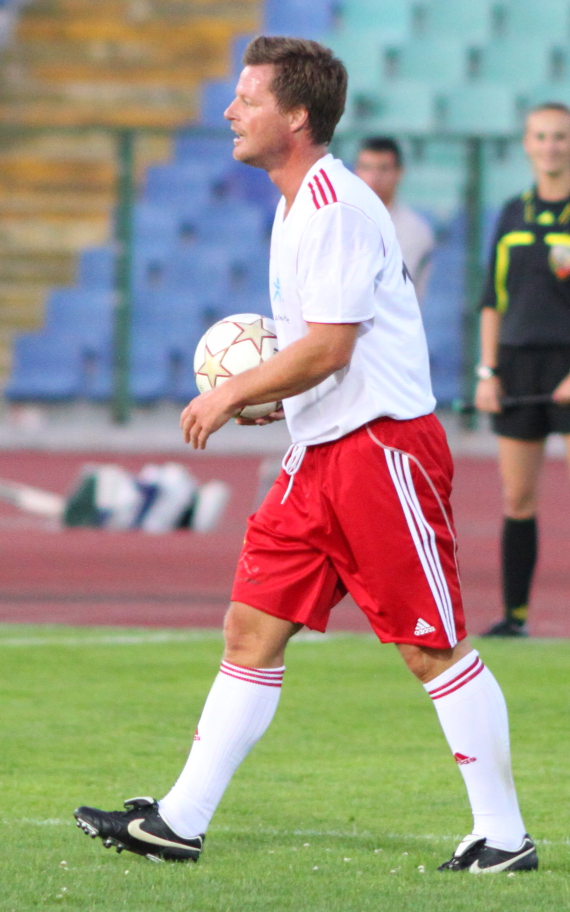 Stefan Schwarz (born 18 April 1969 in Malmö, Sweden) is a Swedish former footballer.